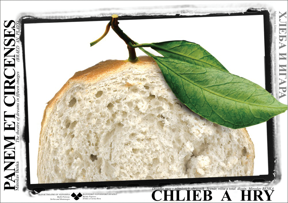 Poster for performance: Bread and Plays Srpski (latinica): Plakat za predstavu: Hleba i igara Српски (ћирилица): Плакат за представу: Хлеба и игара